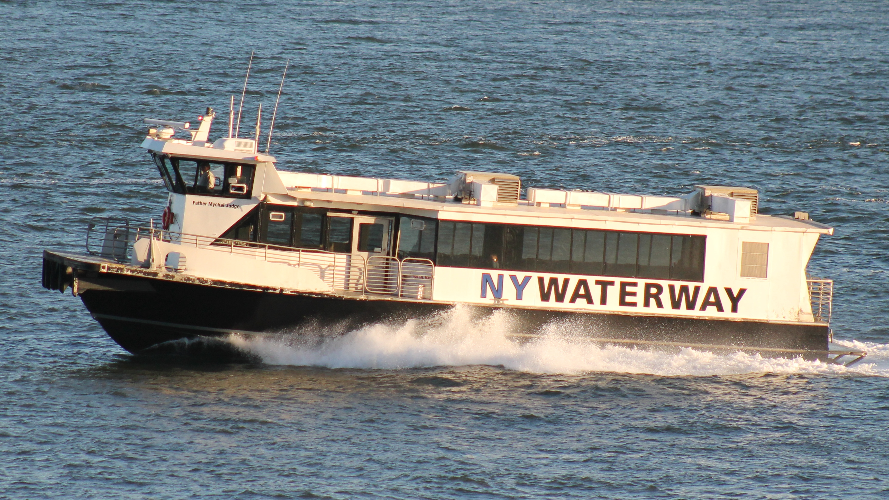 Father Mychal Judge, a NY Waterway ferry, seen on the East River. 23 October 2015.